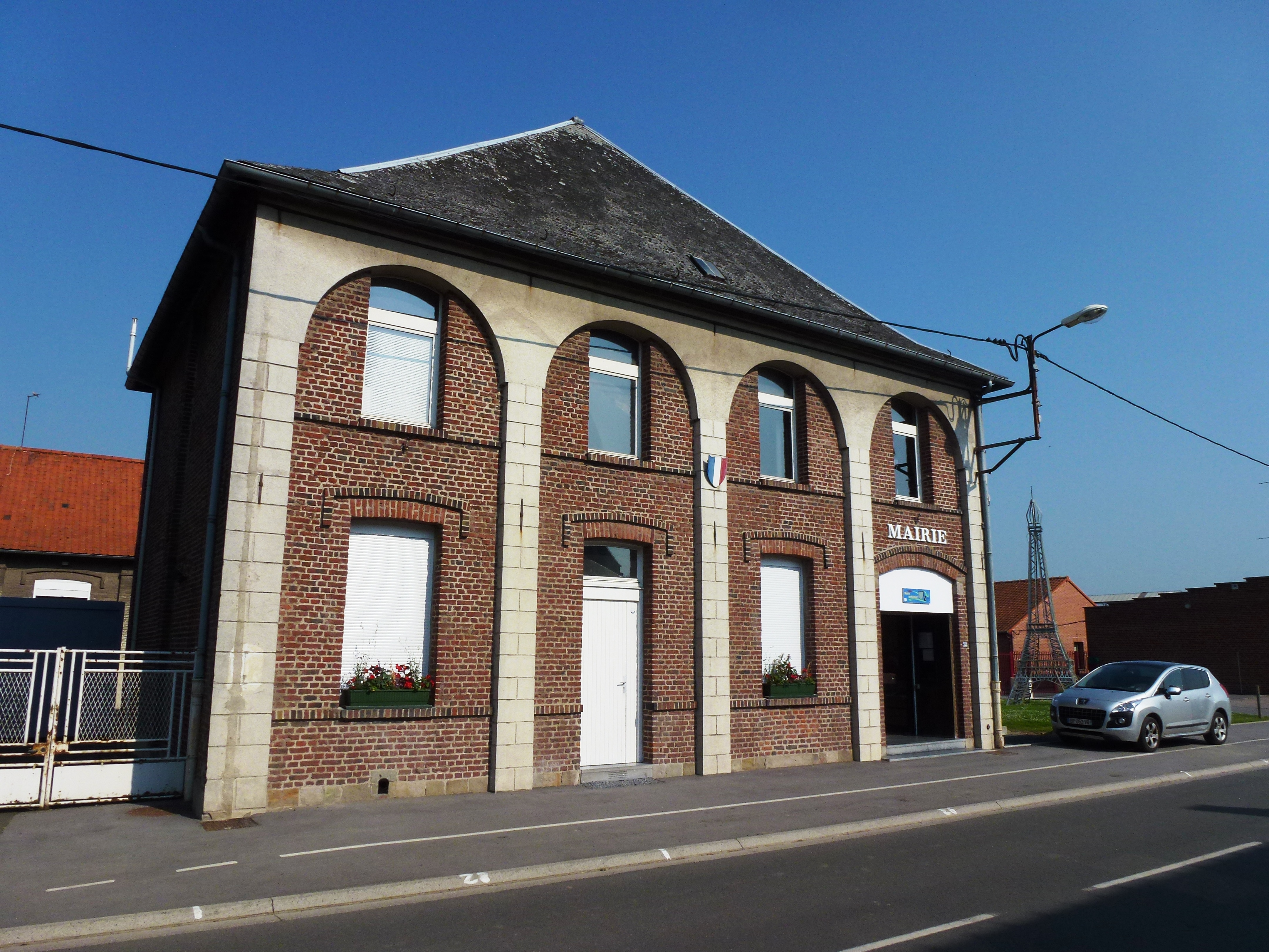 Rosult (Nord, Fr) mairie